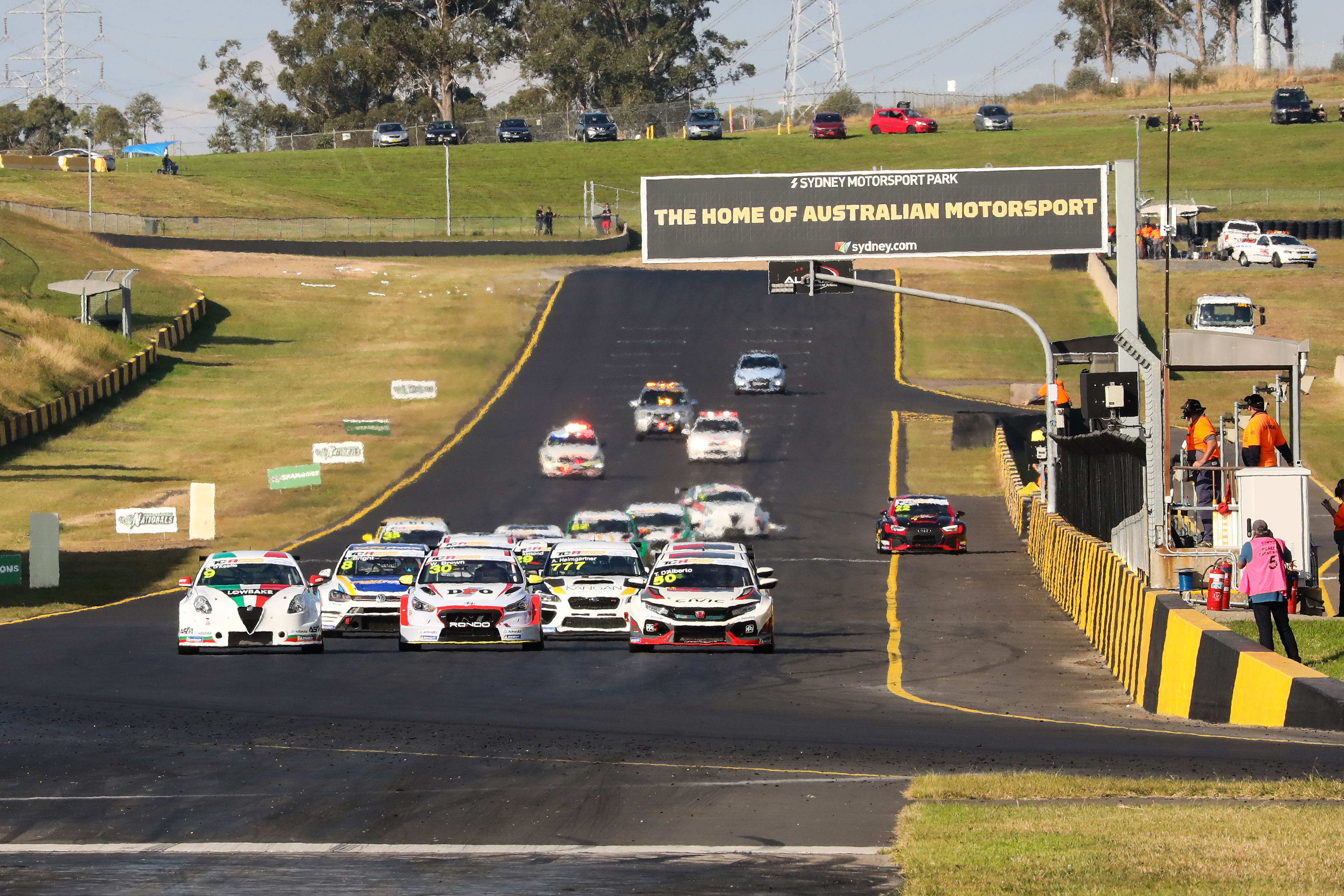 The start of Race 3 of the 2019 TCR Australia round at Sydney Motorsport Park.